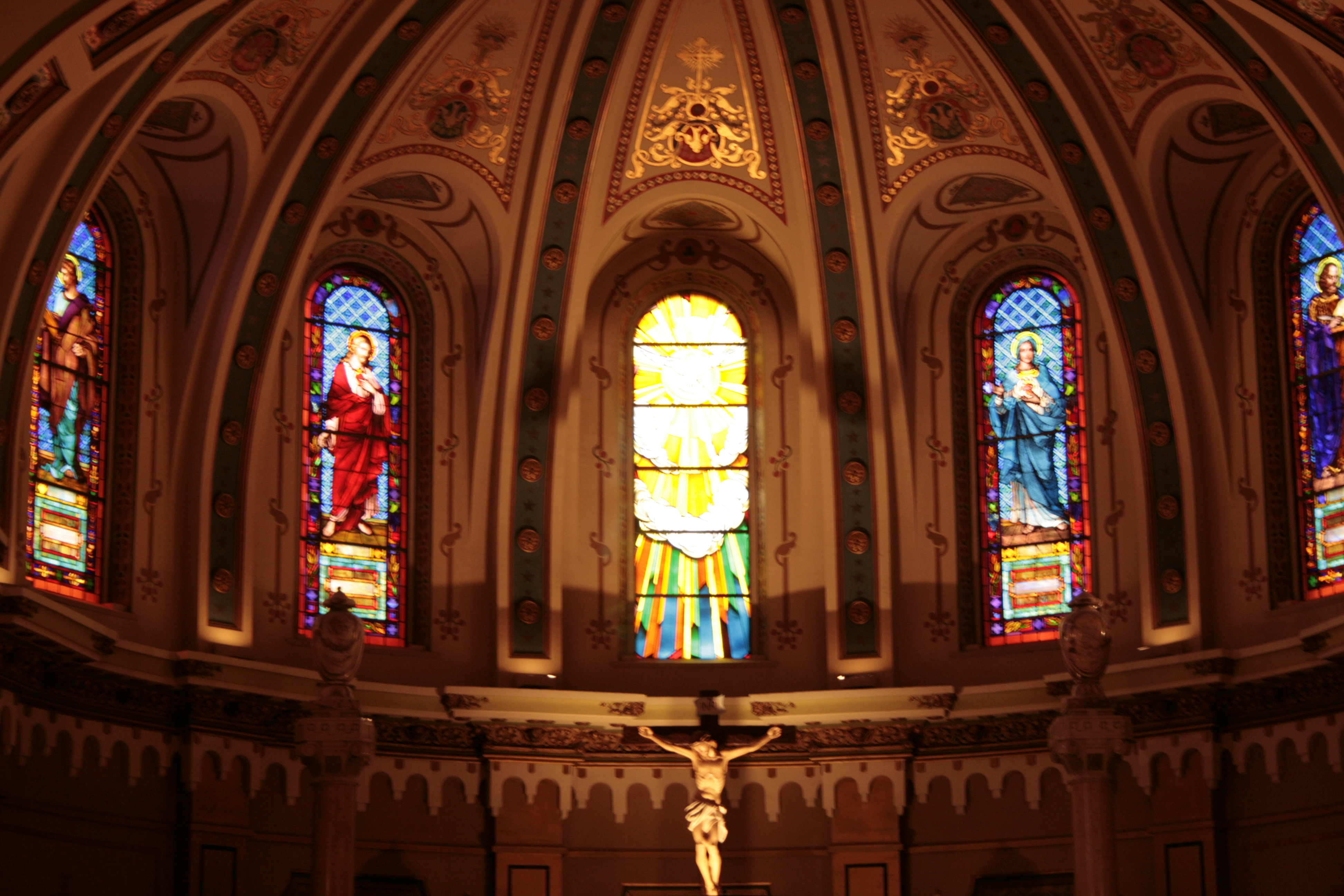 An image of the inside of St. John's cathedral in Boise, Idaho.